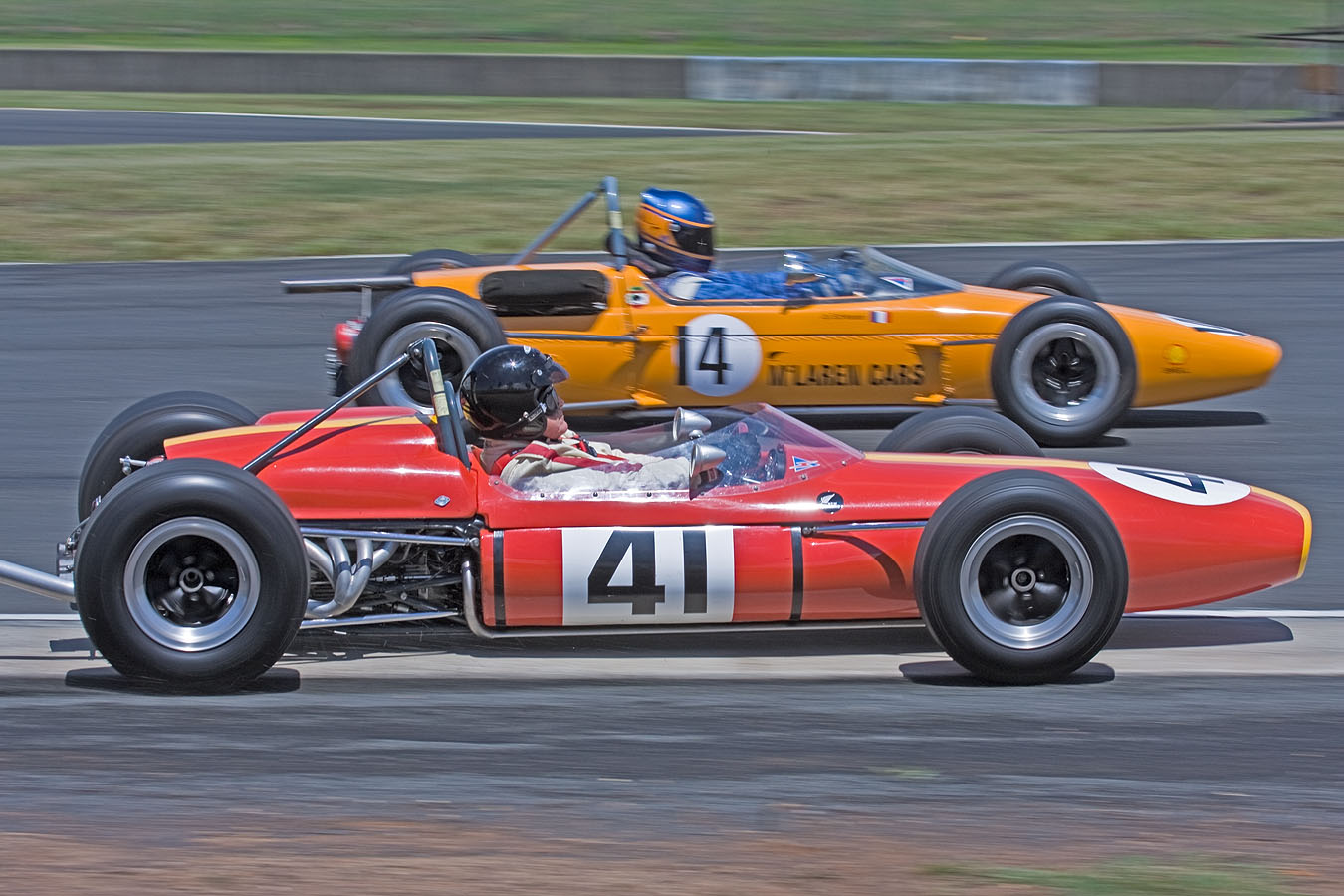 Tasman Revival 2008, Eastern Creek, Australia. IMG_4816